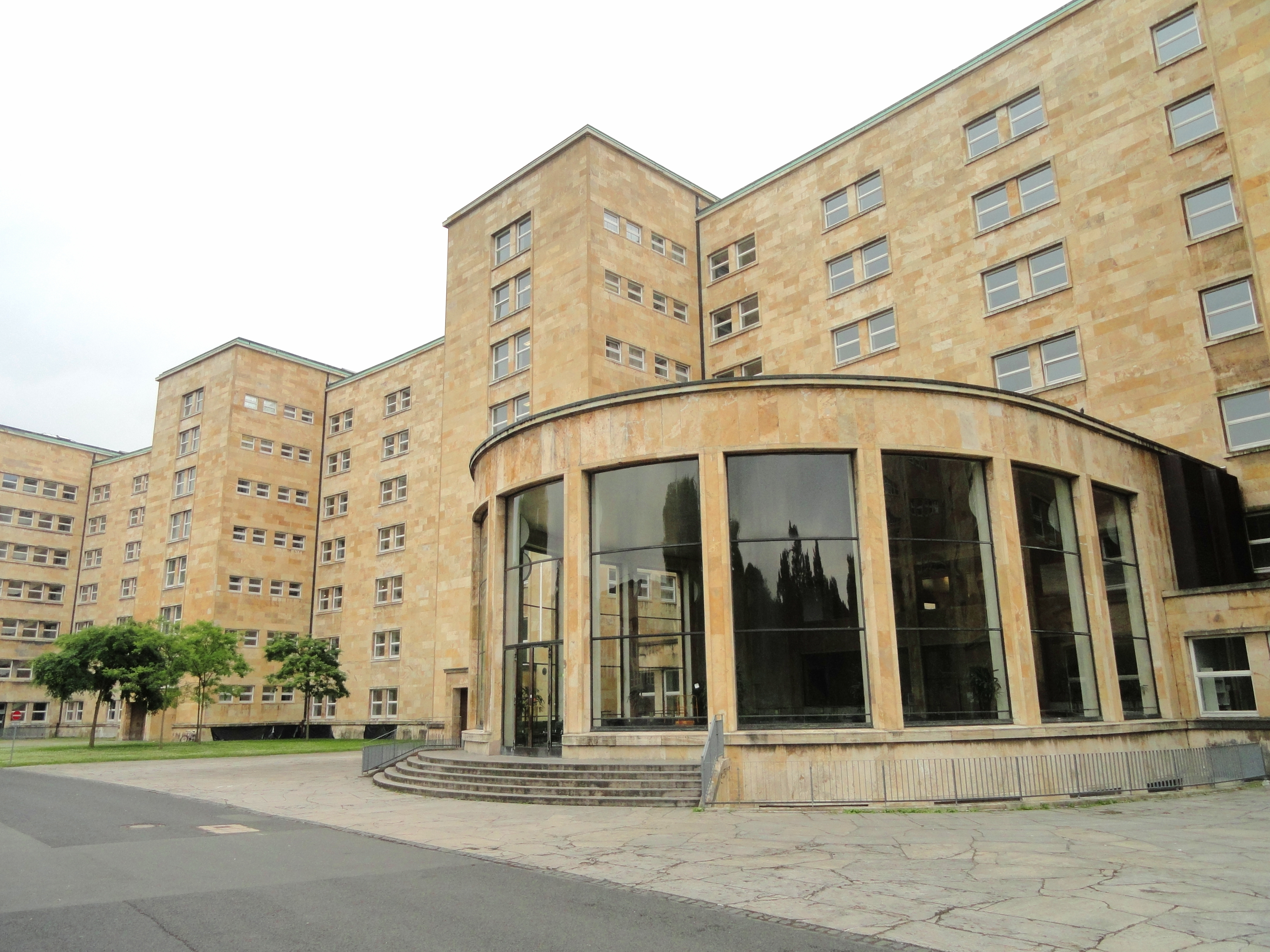 IG Farben Building, now part of the Campus Westend of the Johann Wolfgang Goethe-Universität, Frankfurt am Main, Germany.